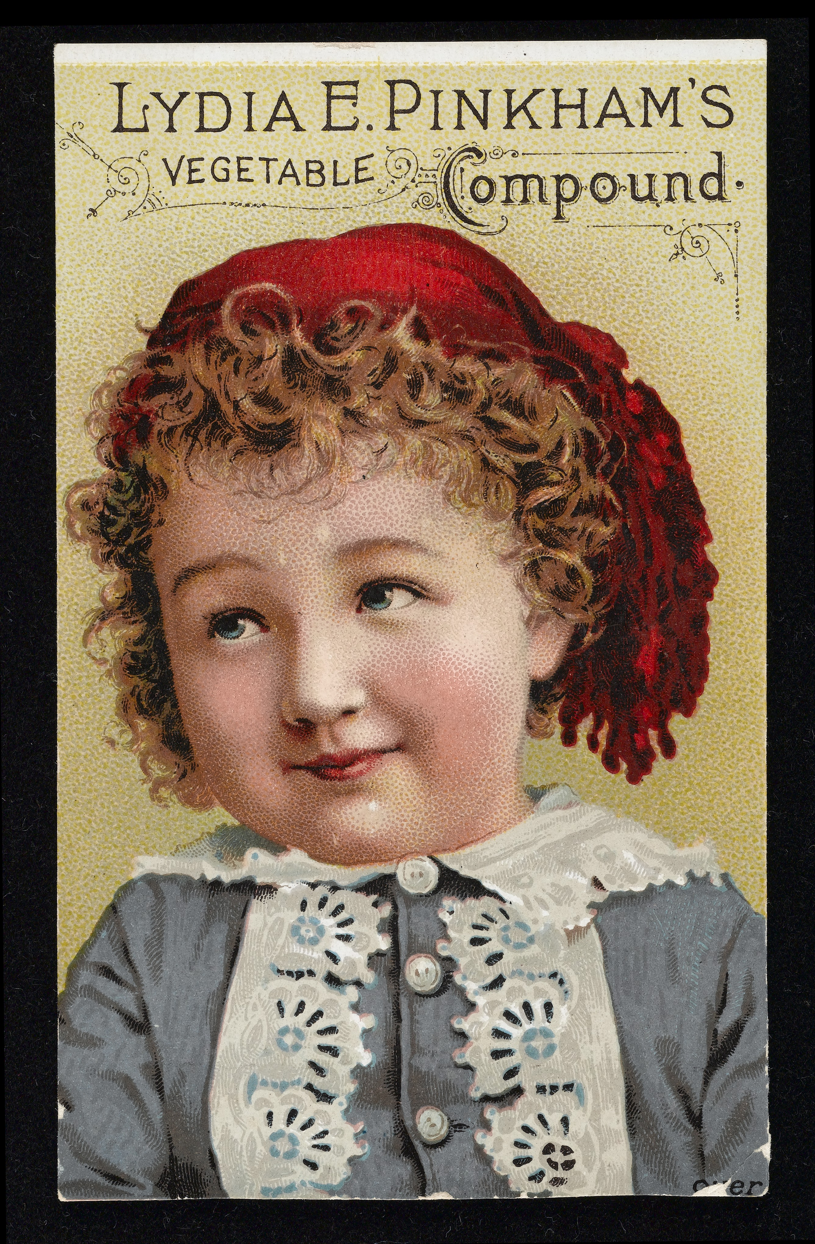 Advert for Lydia E. Pinkham's "Vegetable Compound" to be used for all female complaints, showing a young girl wearing a red hat General Collections Keywords: Uterine Prolapse; Menstruation Disturbances; Lydia E. Pinkham's Blood Purifier.; Advertisement; Advertisements; Rheumatic Diseases; Menopause; Cathartics; Lydia E. Pinkham's Liver Pills.; Female; Lydia E. Pinkham's Vegetable Compound.; Constipation